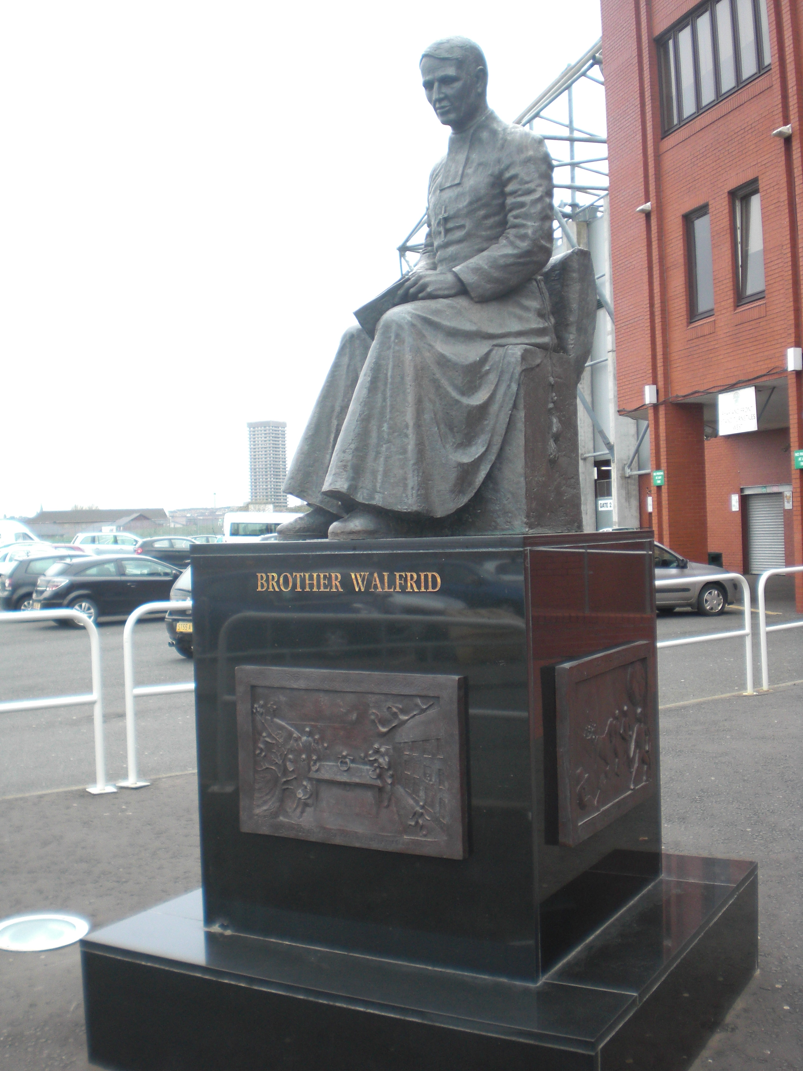 Brother Walfrid, founder of Glasgow Celtic FC.